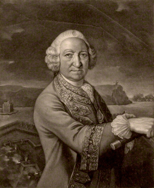 William Blakeney, 1st Baron Blakeney (1672-1761)